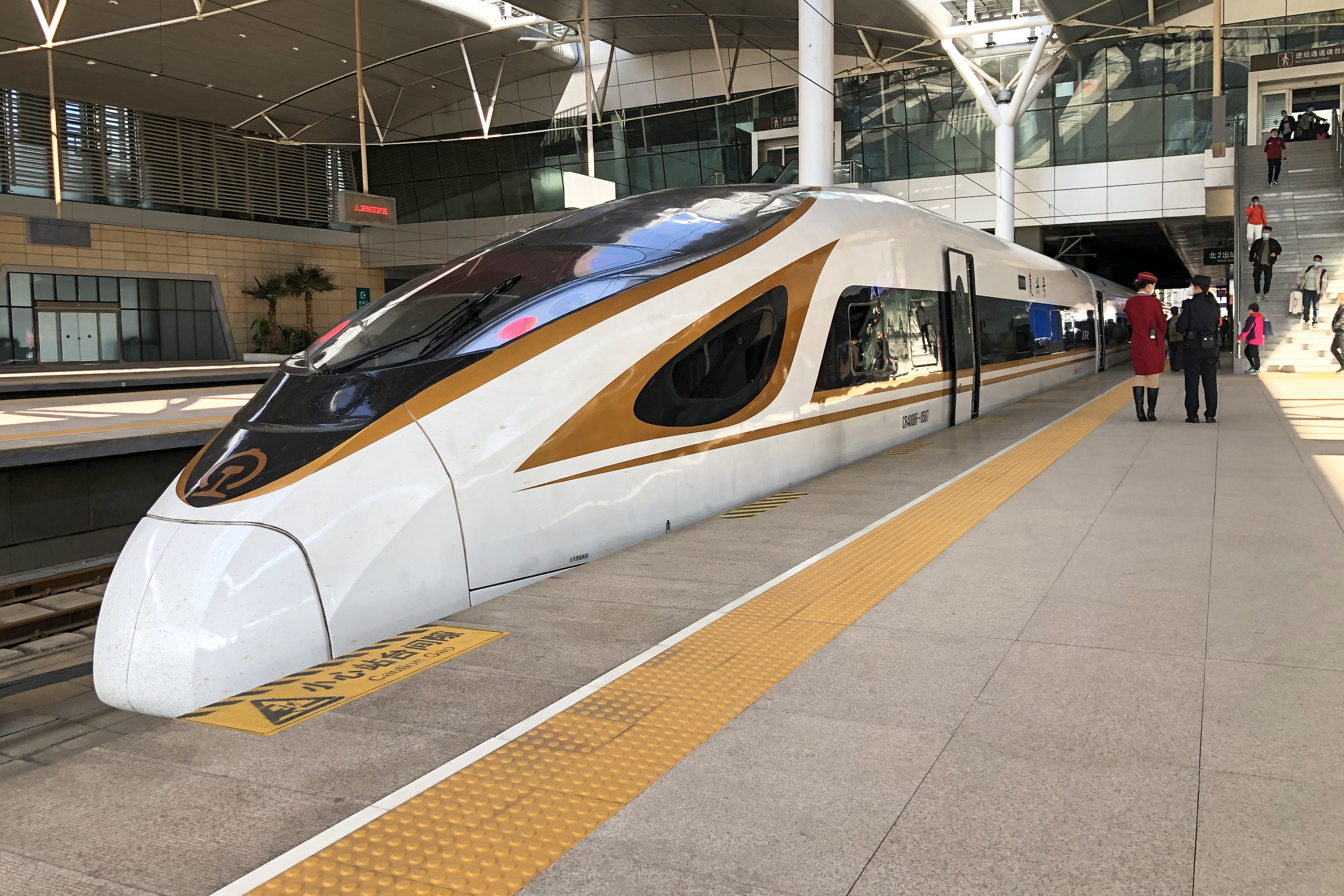 C2220 to Beijing South (via Wuqing), waiting for departure at Platform 15. Oh wait a minute, this is a prototype!